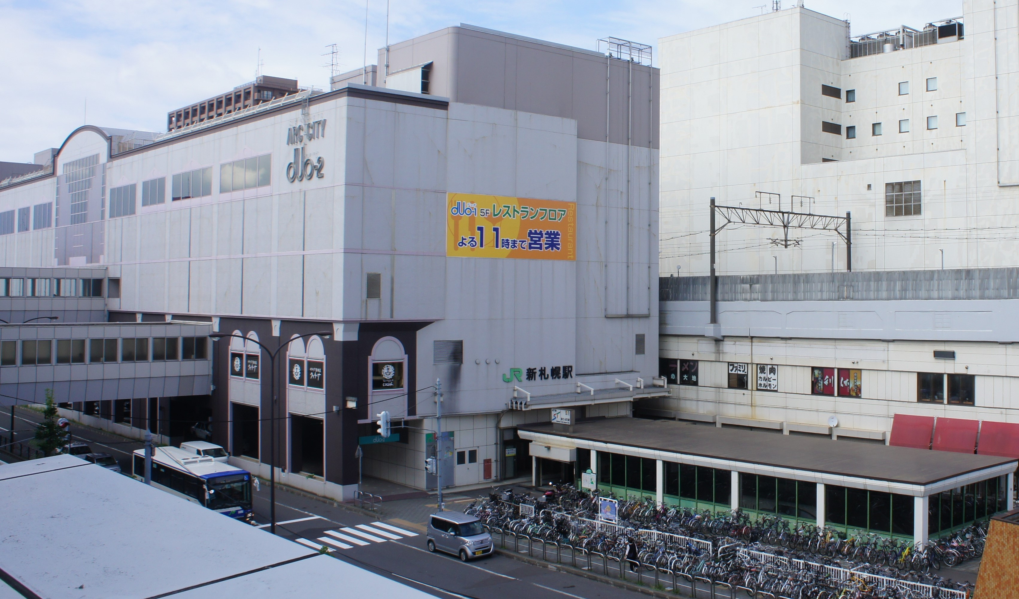 JR Chitose-Line Shin-Sapporo Station and duo 2 appearance